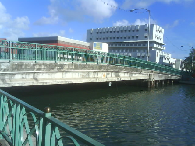 The Charles Duncan O'Neal Bridge spanning the Constitution River in Bridgetown, Barbados.